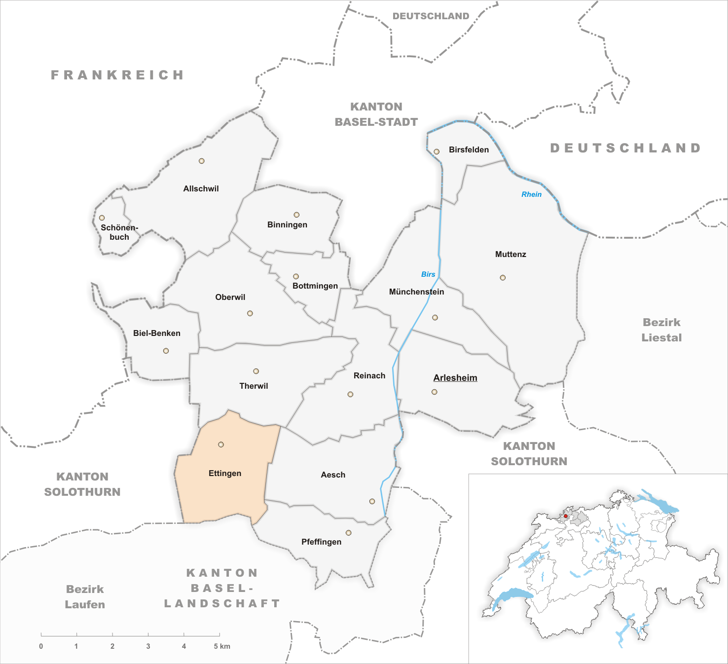 Municipality Ettingen